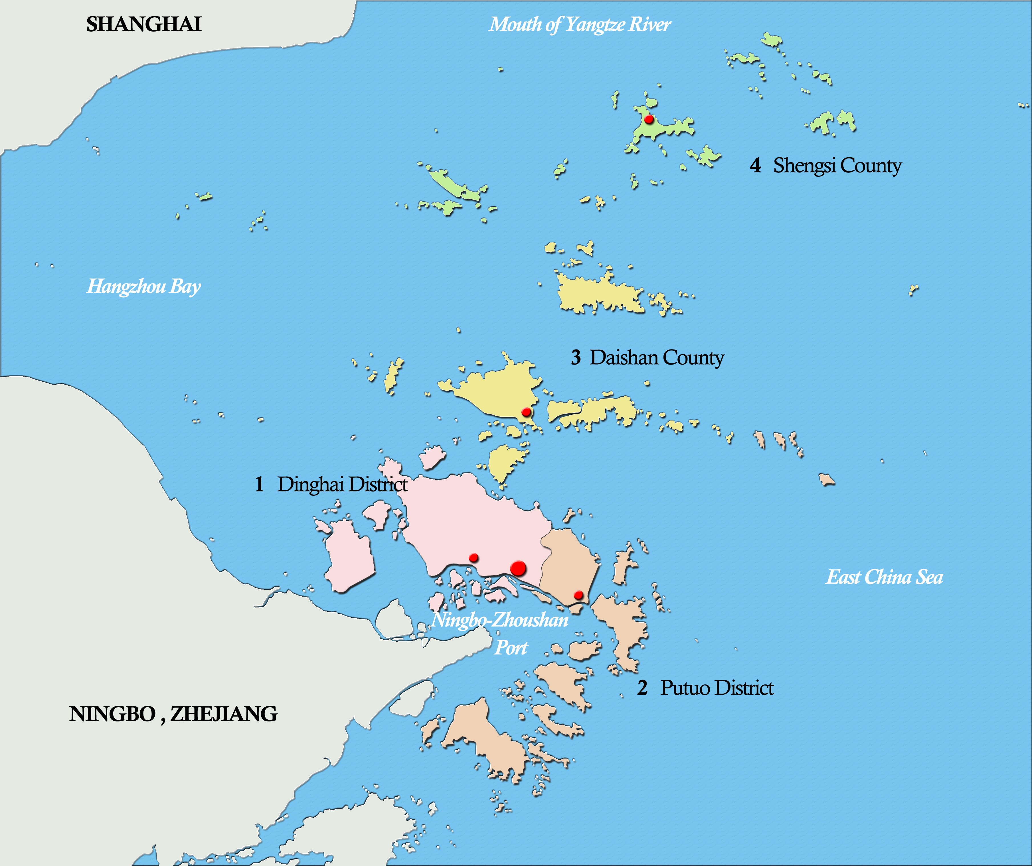 Administrative Map of Zhoushan